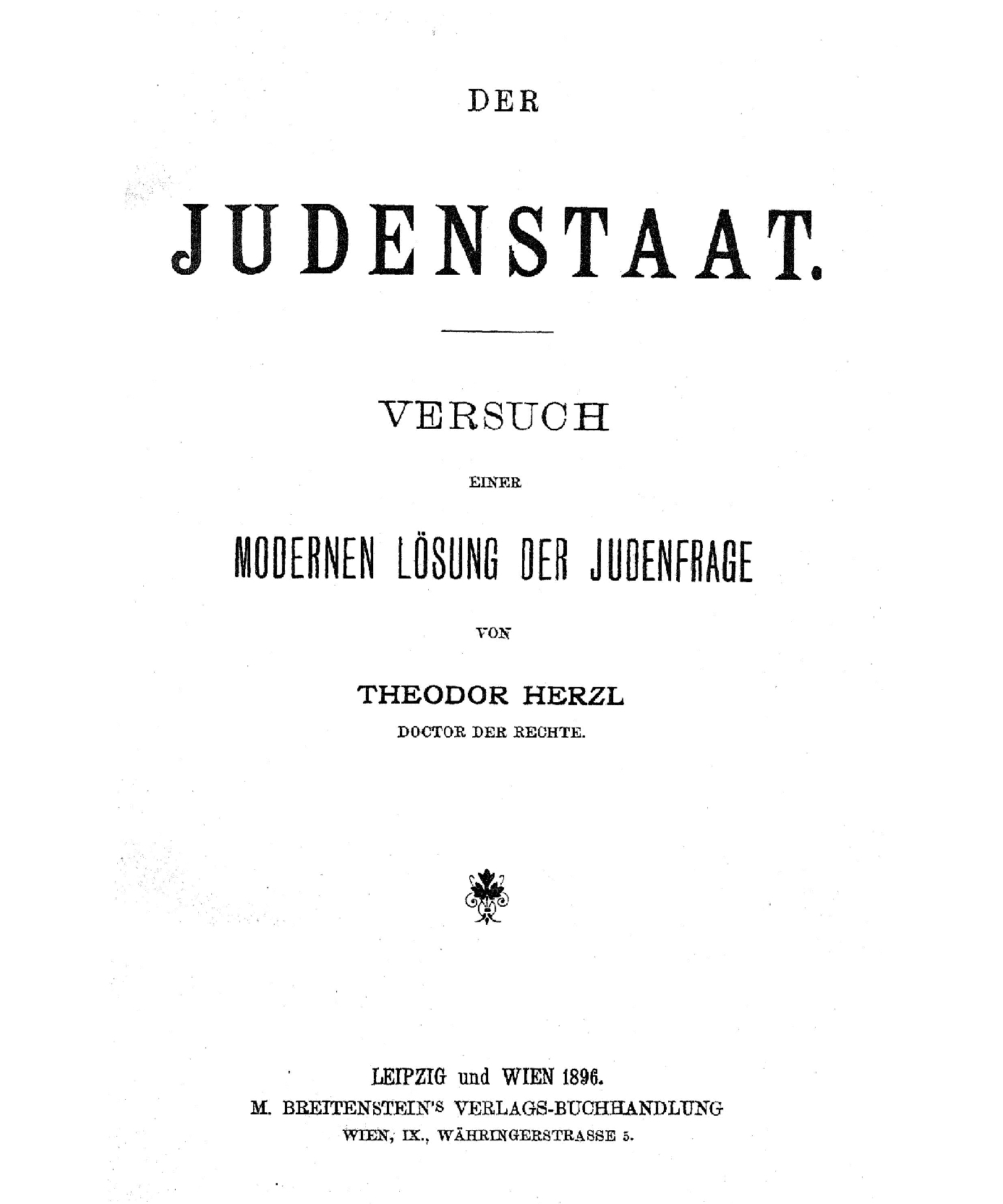 This is a scan of the historical document